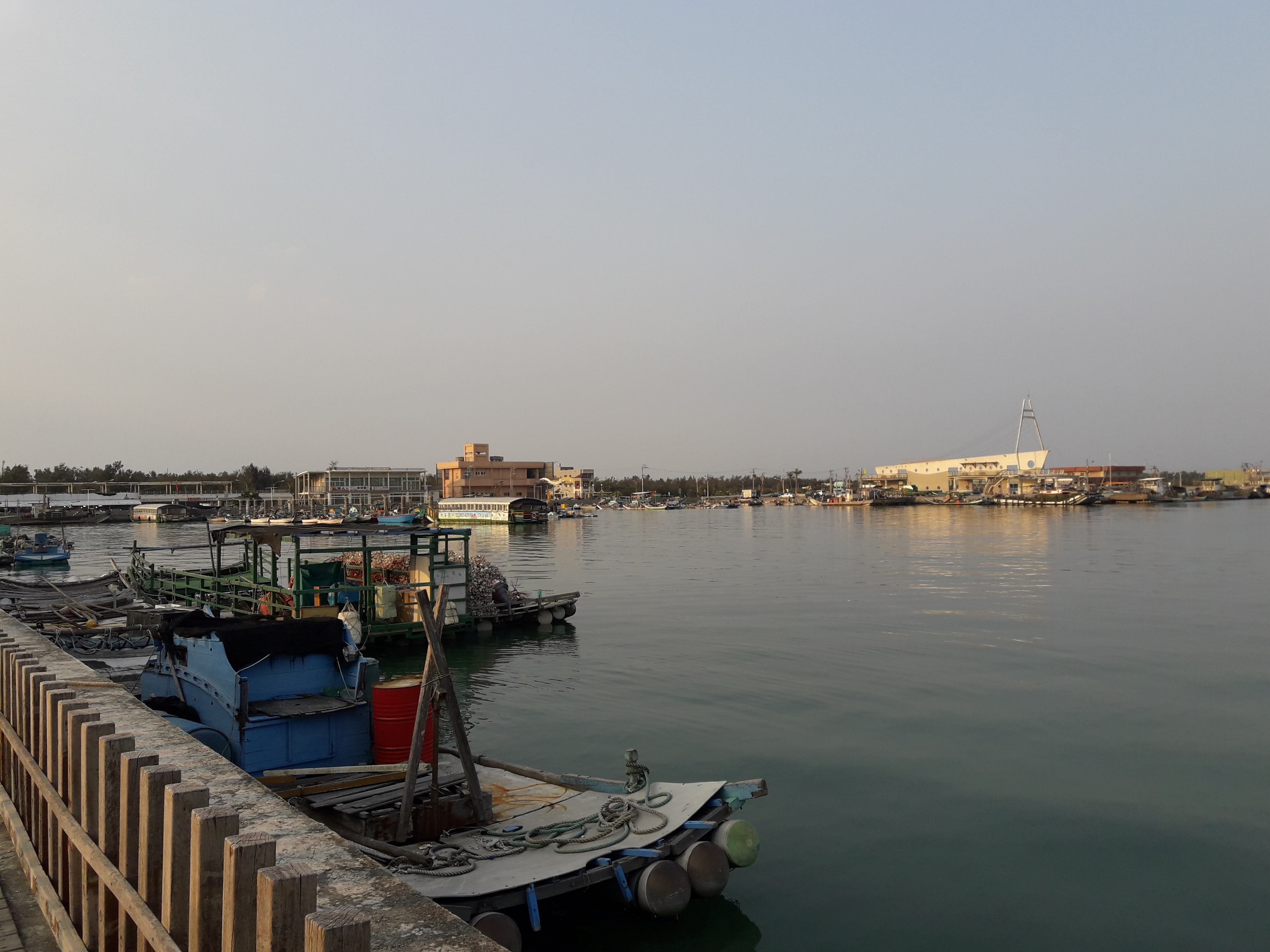 Dongshi Fishing port in Chiayi.